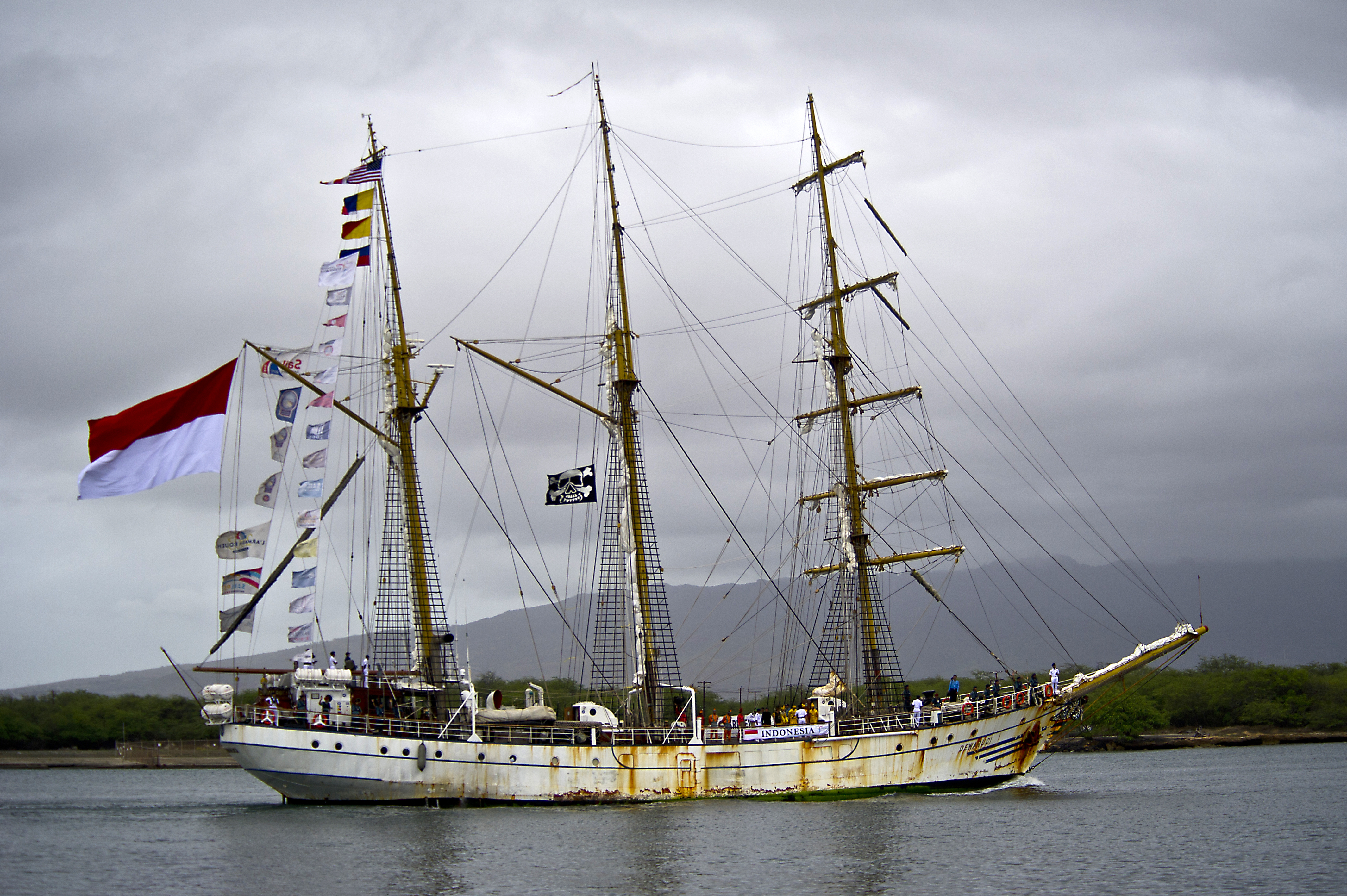 The Indonesian navy tall ship, KRI Dewaruci arrives at Joint Base Pearl Harbor-Hickam, Hawaii, Feb. 29, 2012, for a brief port visit while en route the U.S. mainland. Dewaruci began her cruise from Surabaya, East Java, Indonesia, Jan. 14, as part of International Operation Sail 2012 to commemorate the bicentennial of the War of 1812.